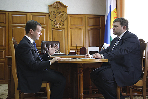 KIROV. Dmitry Medvedev with Governor of Kirov Region Nikita Belykh.